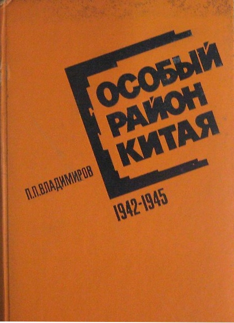 Cover of The Vladimirov diaries: Yenan, China, 1942-1945 (Russian: Особый район Китая. 1942—1945)